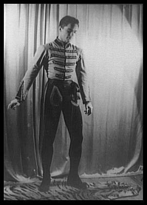 Title: Portrait of George Zoritch, as the Baron in Gaite Parisienne Abstract/medium: 1 photographic print : gelatin silver.